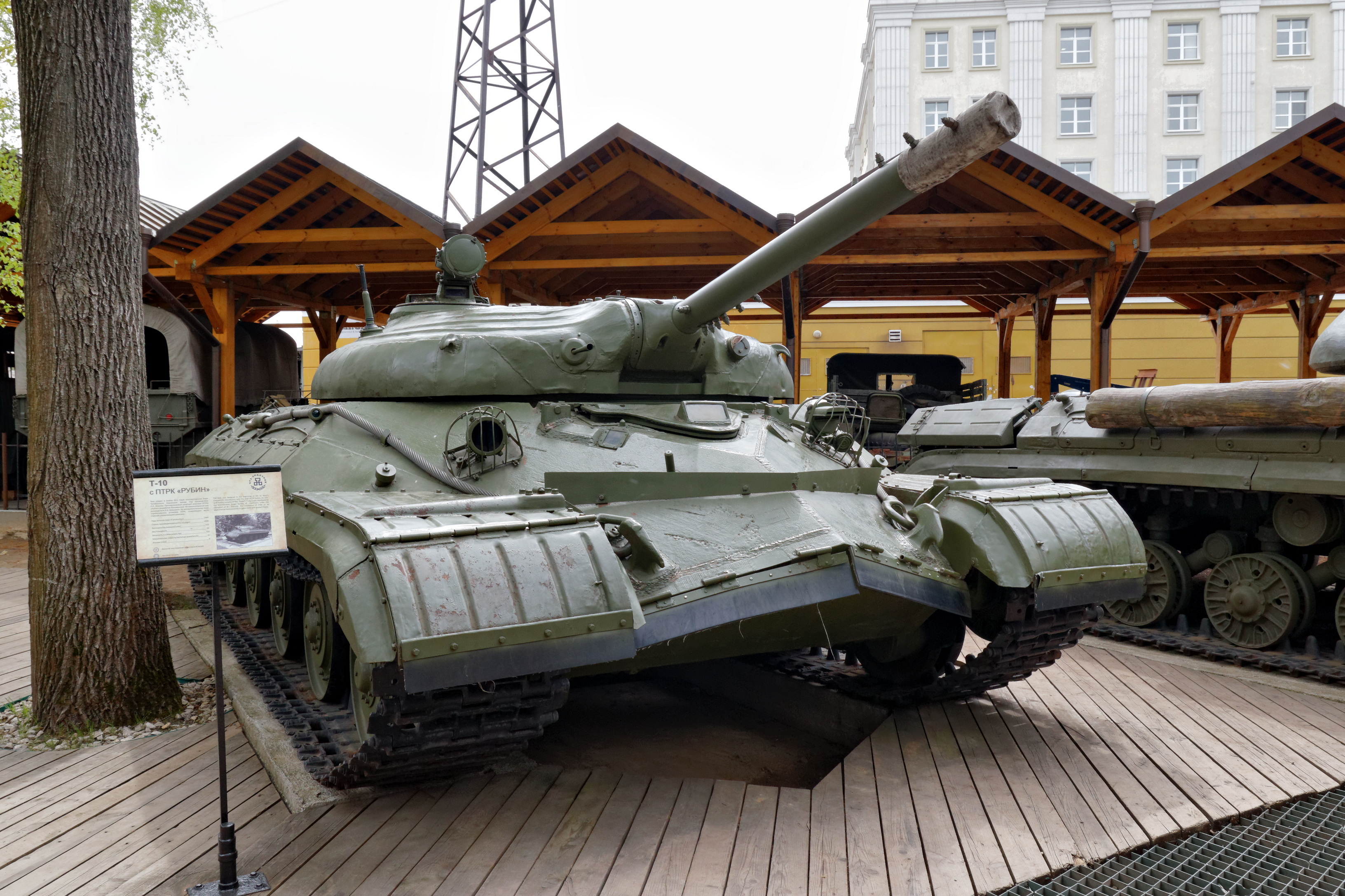 Arkhangelskoye. Vadim Zadorozhny’s Vehicle Museum. T-10